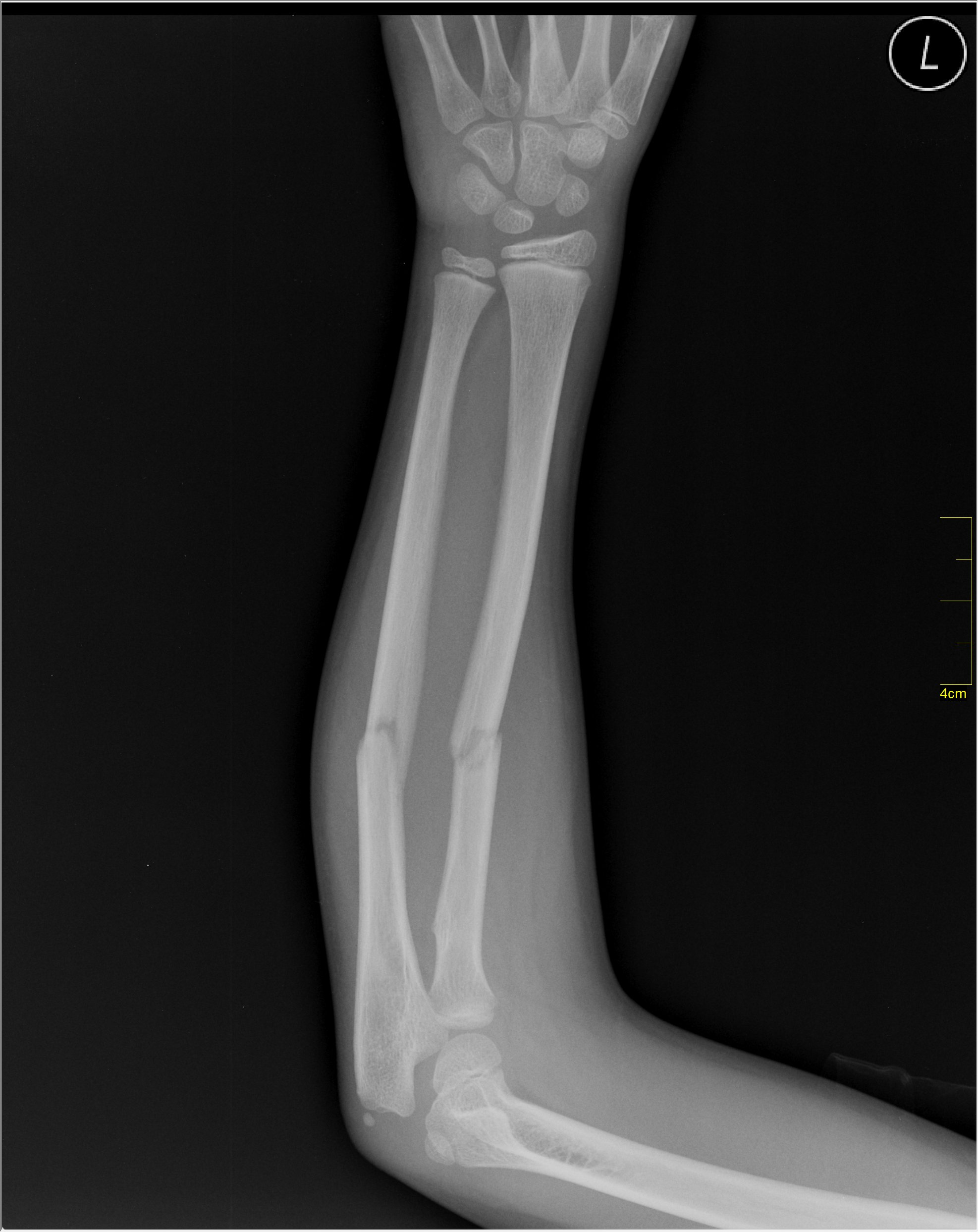 Roentgenogram or Medical X-ray image. May not be to scale.